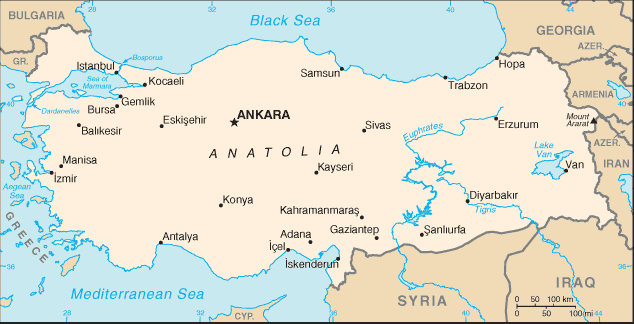 A map of Turkey, showing major towns.